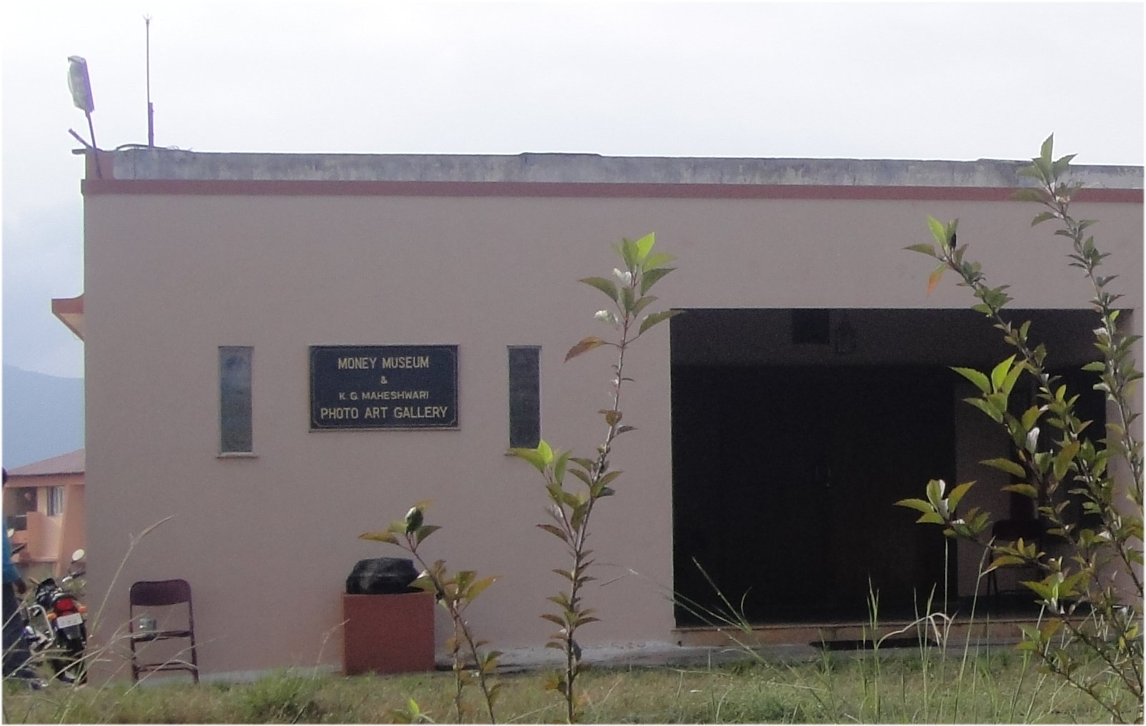 Entrance to the Museum wing of the IIRNS